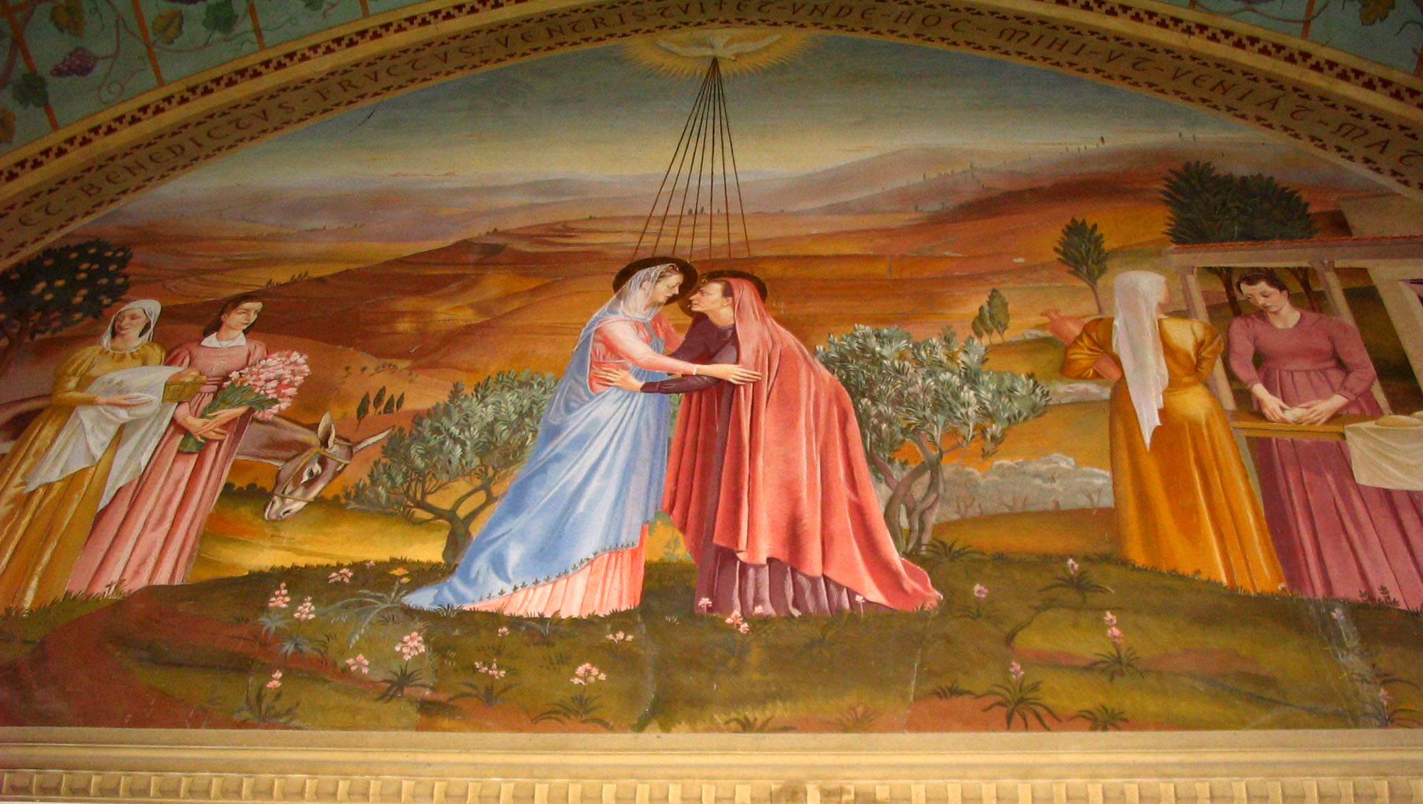 Ein Kerem, Church of Visitation